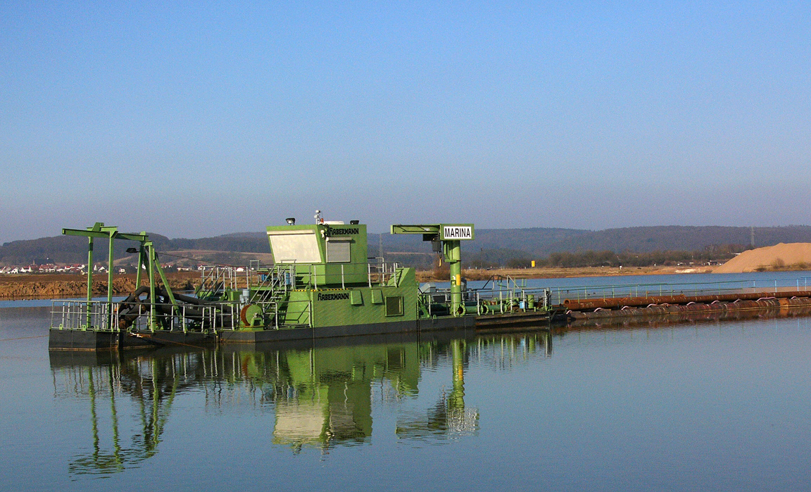 Suction Dredger